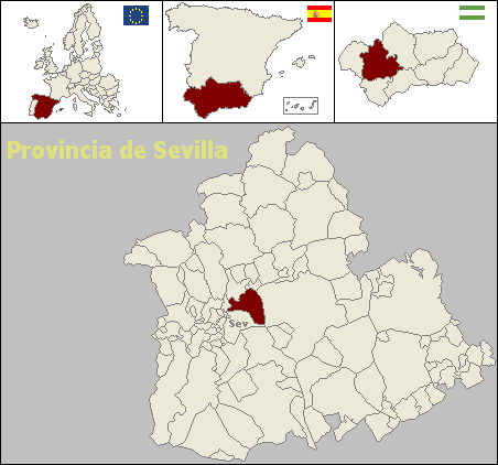 La Rinconada / Map